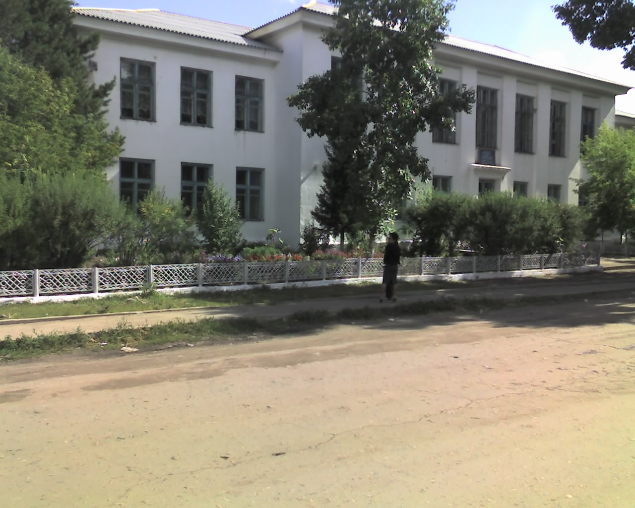 School № 1 of Saryg-Cep